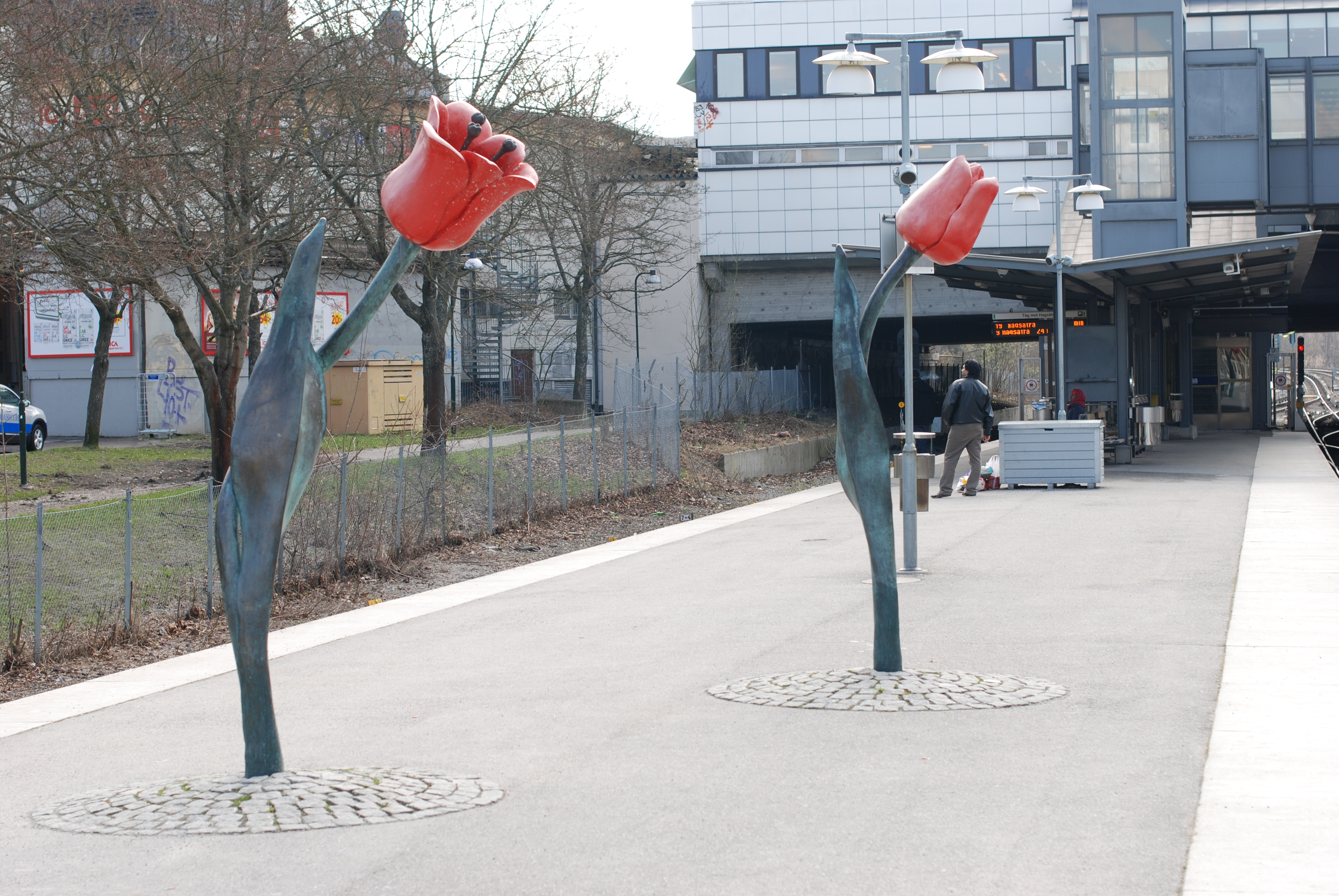 Birgitta Muhr´s Uppväxter (Growing up, Högdalen Metro Station, Stockholm